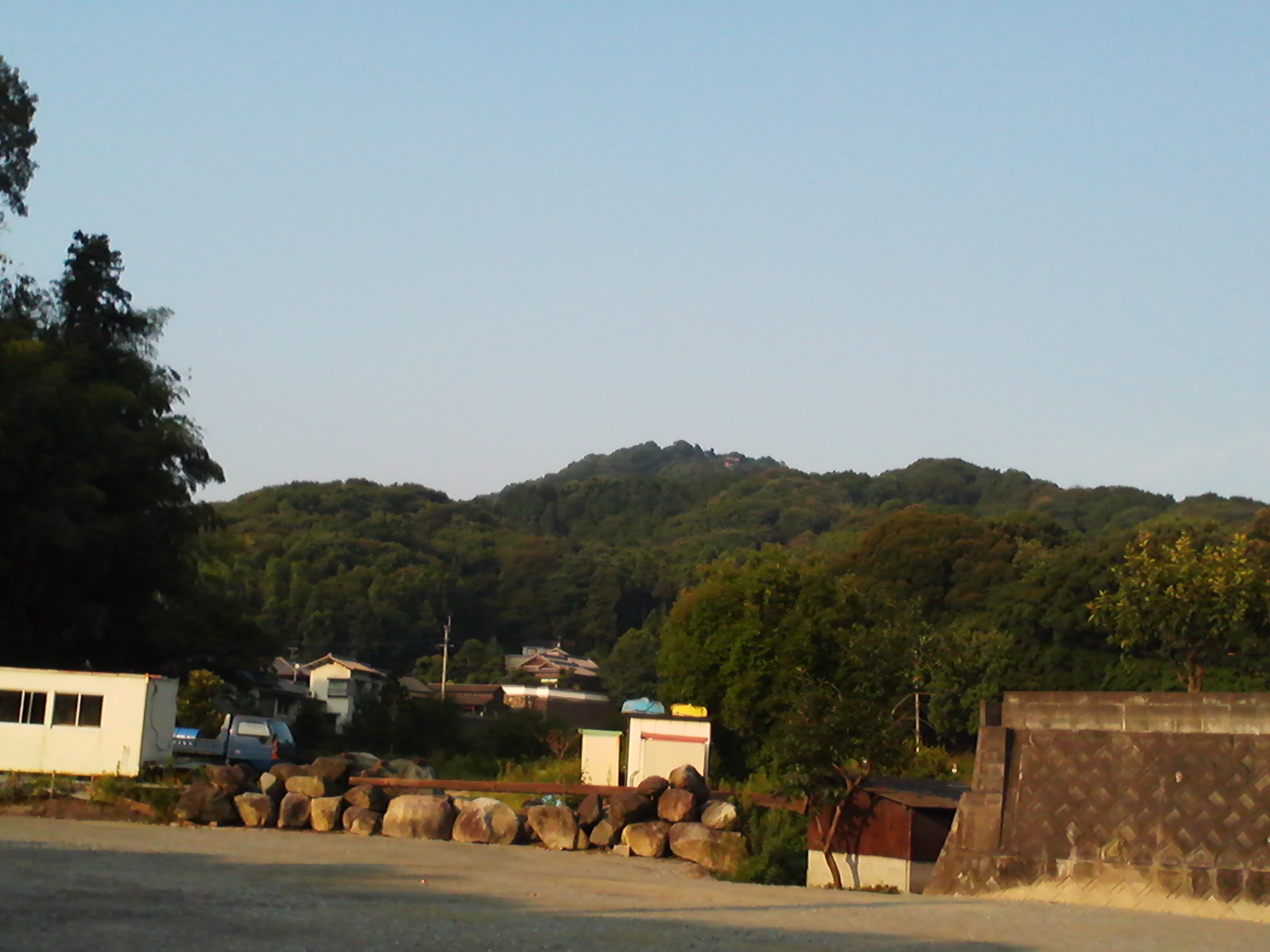 Mount Tenpai in Chikushino, Fukuoka, Japan中文（台灣）: 天拝山，福岡縣筑紫野市